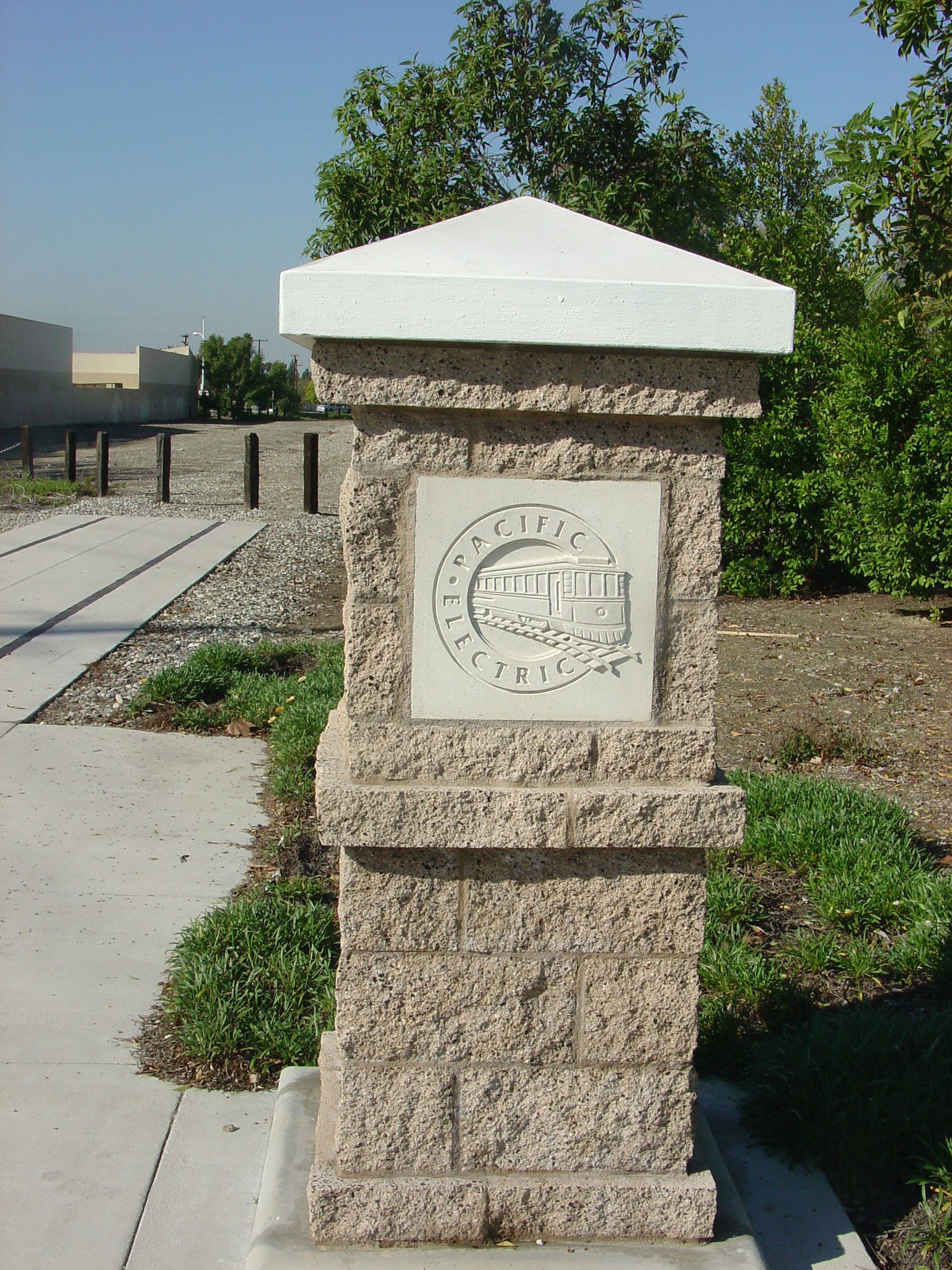 Pacific Electric easement